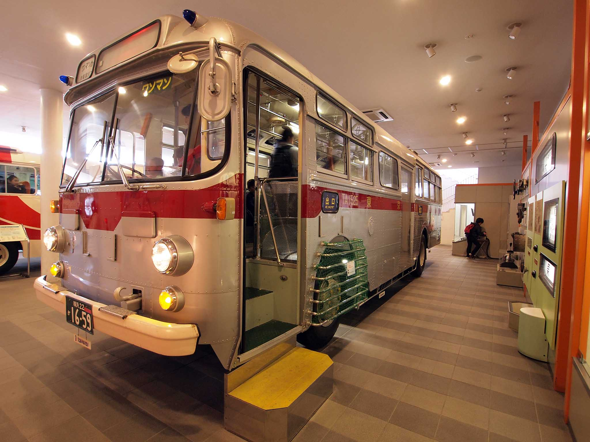 1965s fleet of Tokyu Bus. Model: Hino RB10 Body: Teikoku Body License plate: KNY22KA1659 Tokyu Transportation Museum archive